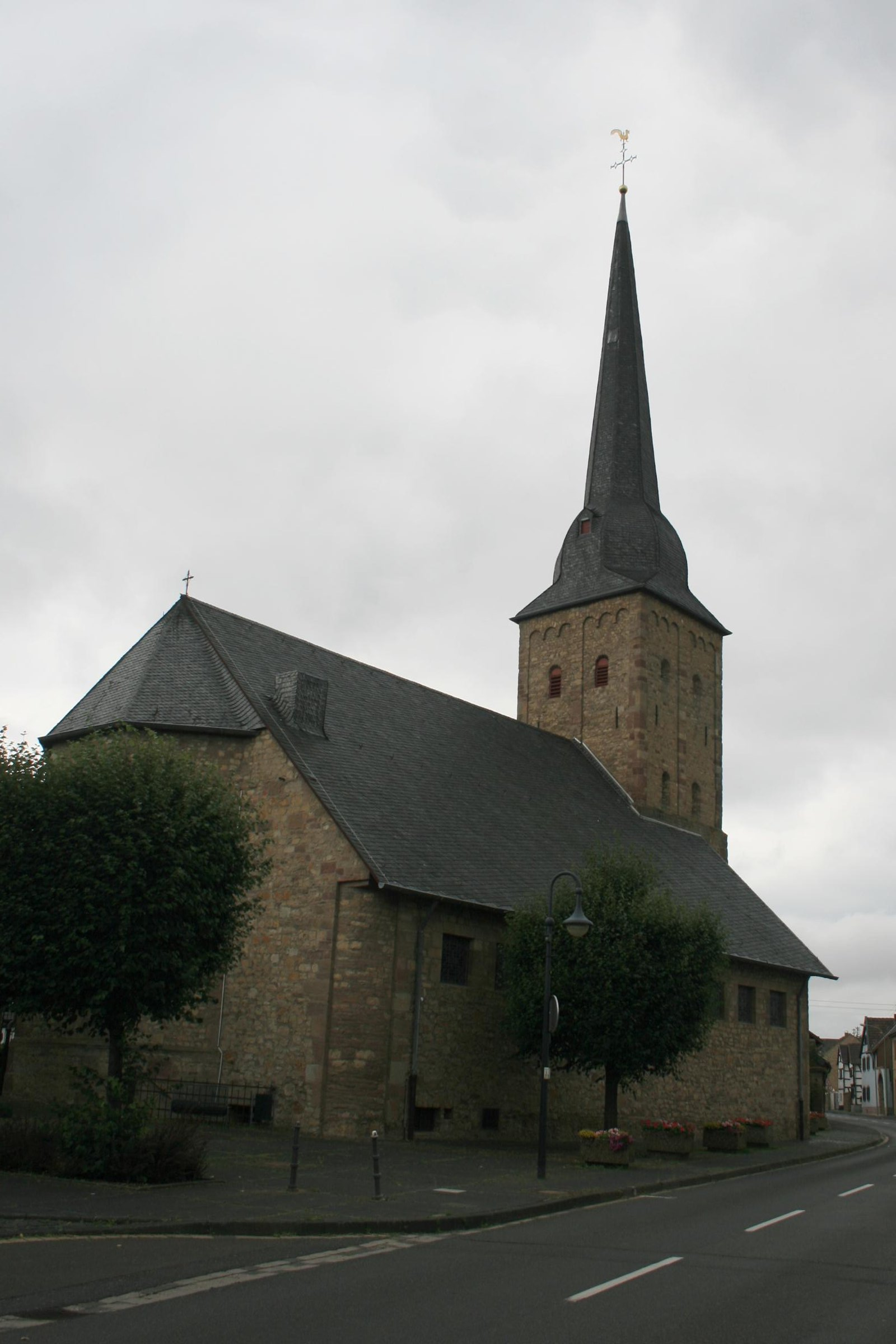 Cultural heritage monument No. 069 in Nideggen